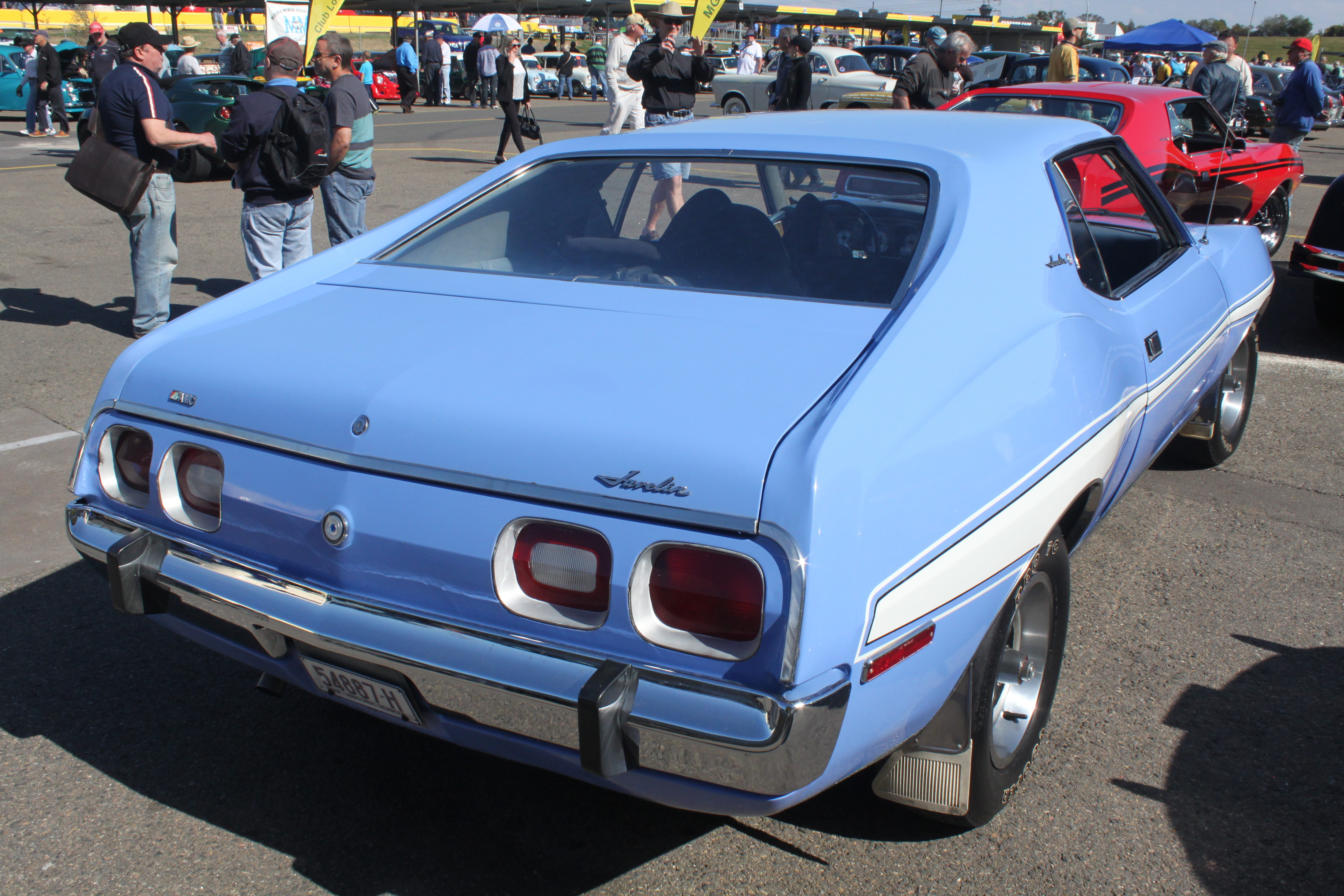 Shannon's Classic, Eastern Creek, NSW August 2015